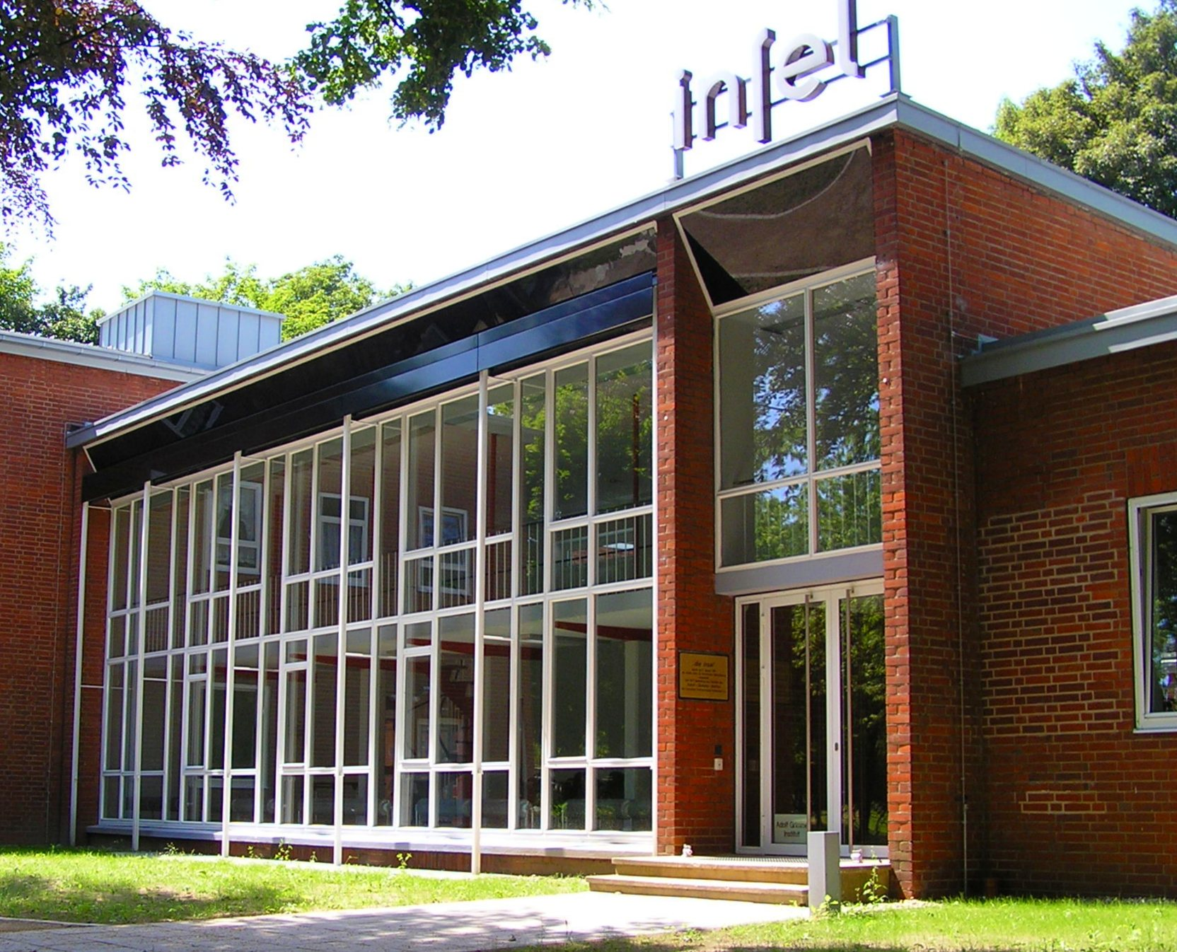 Adolf Grimme Institut in Marl, Germany